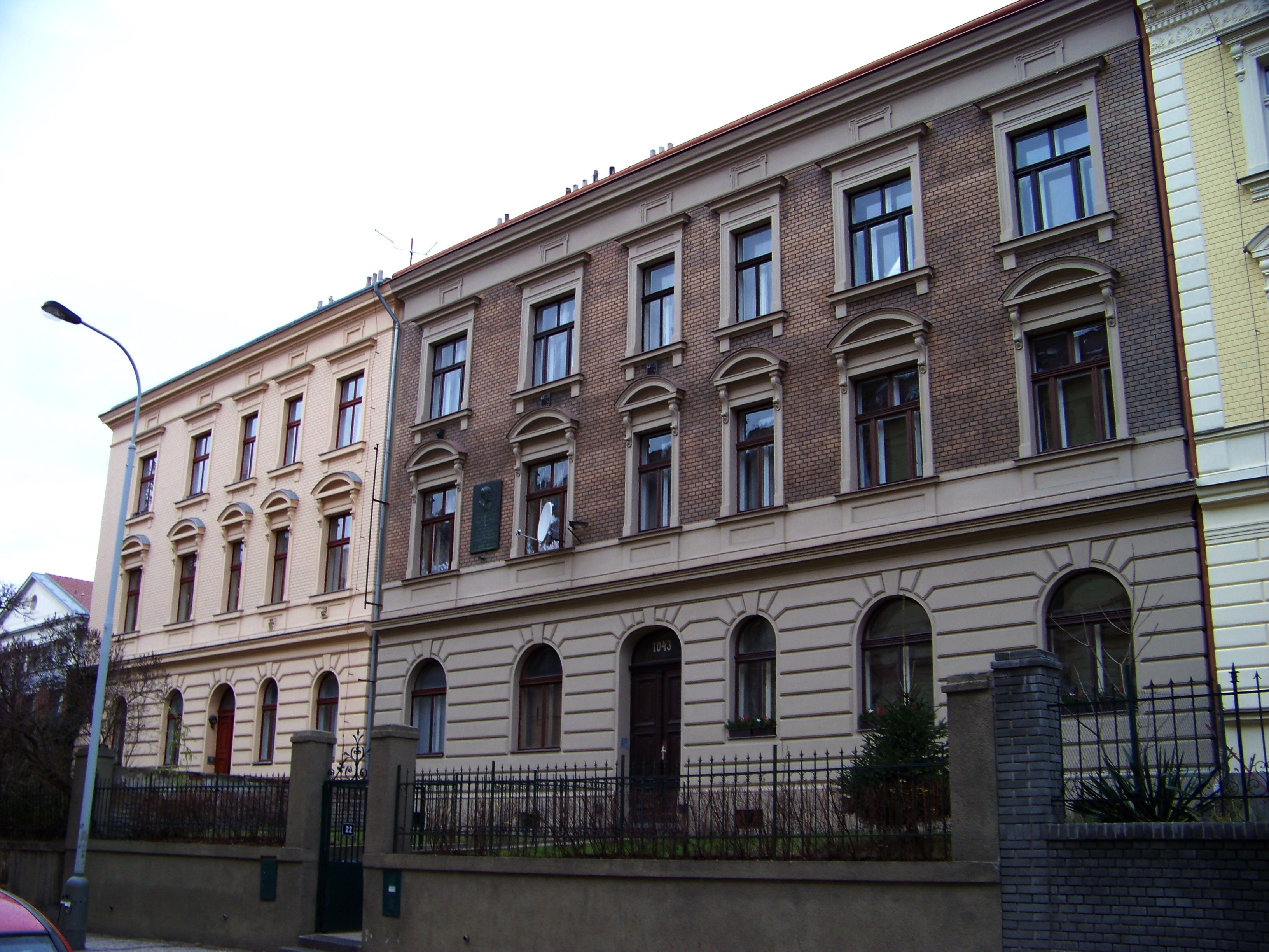 Prague-Smíchov, the Czech Republic. Holečkova 22 and 24. - OpenStreetMap(Info)